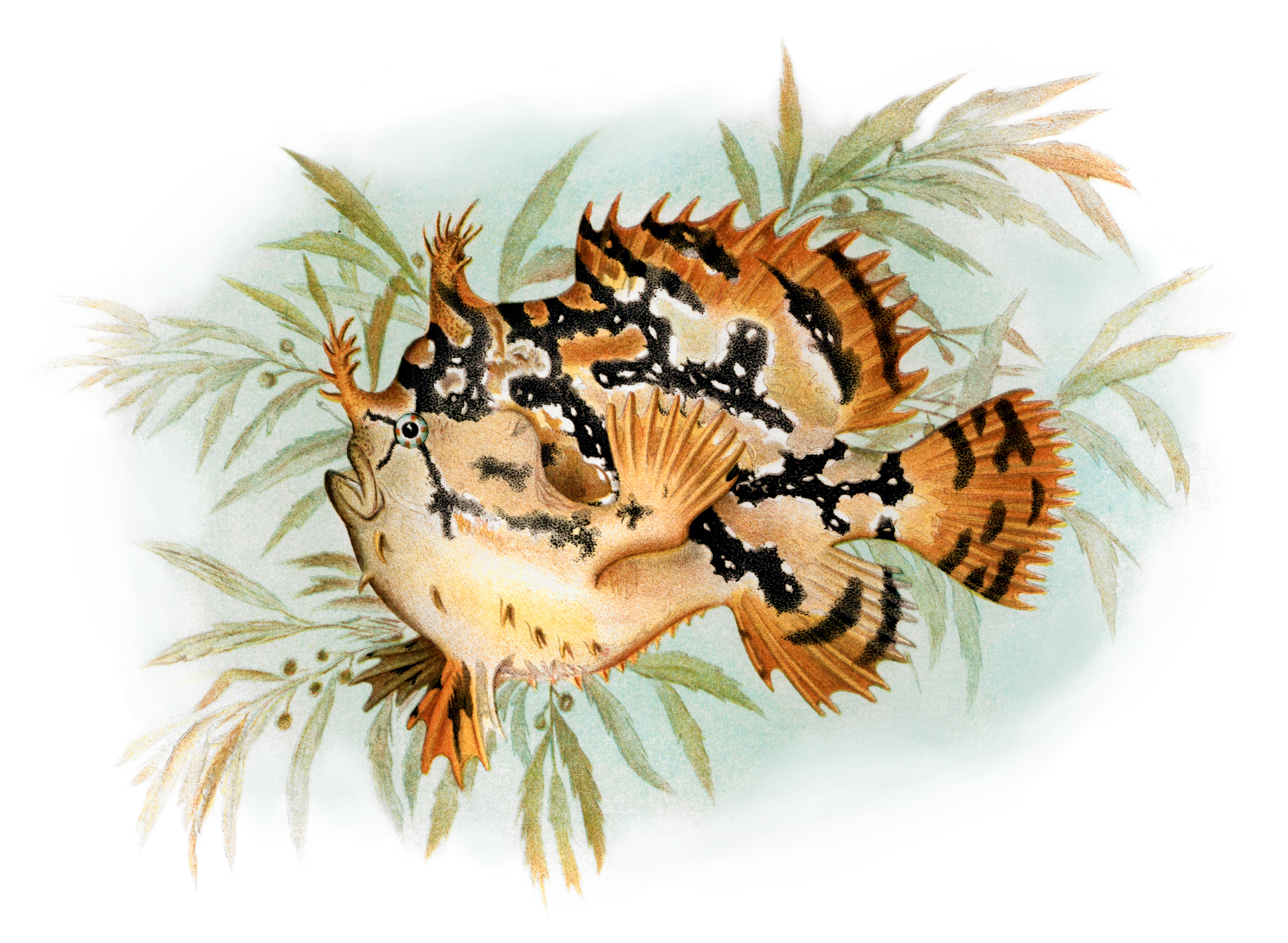 A sargassumfish (Histrio histrio).